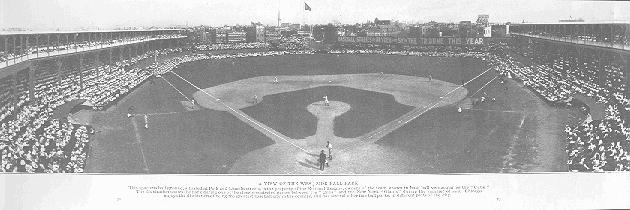 "A View of the West Side Ball Park", copied from a picture book printed ca. 1909. It was taken on August 30, 1908, in the thick of the heated race between the Cubs and the New York Giants. The Cubs won the pennant that year in great drama and controversy, and would go onto win the World Series (their last as of the 2005 season). The Library of Congress has another version of this picture. Search under "Chicago National League".